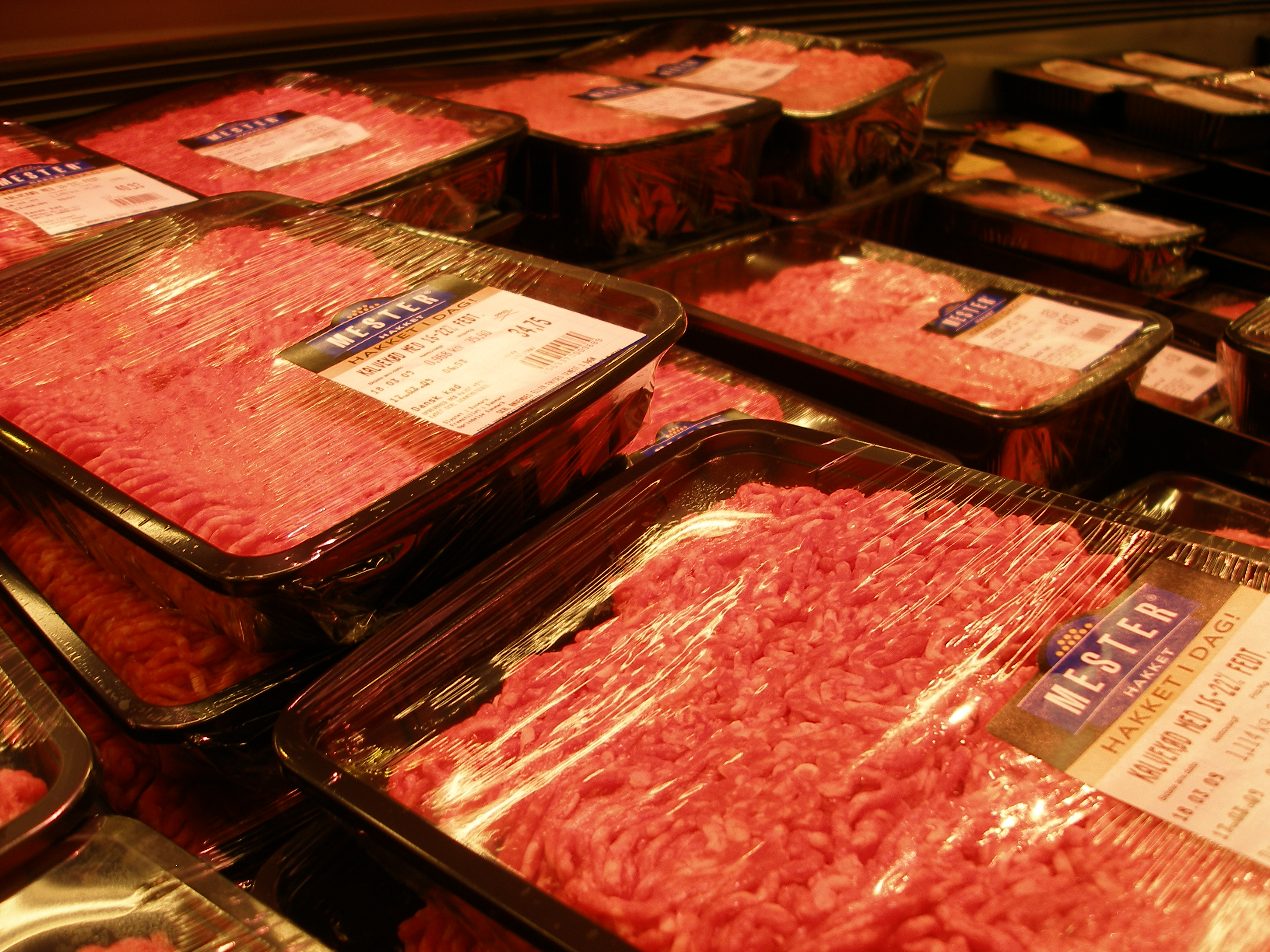 Minced calf in Danish supermarket